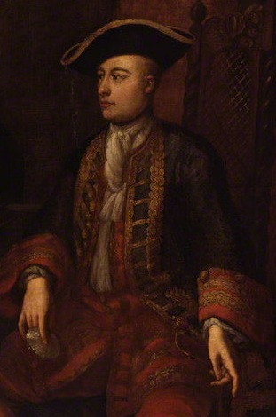 Left: John Montagu, 2nd Duke of Montagu (1690-1749) ; Centre, background: unknown minister of the church(?); right: James O'Hara, 2nd Baron Tyrawley(1682-1774)